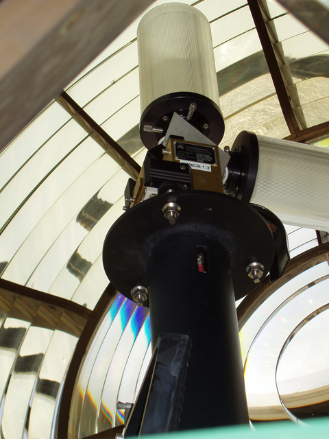 Orford Ness Lighthouse The main light - 70Watt/12Volt (with spare). With rotation, the light flashes every 5 seconds and has a range of 25 nautical miles.